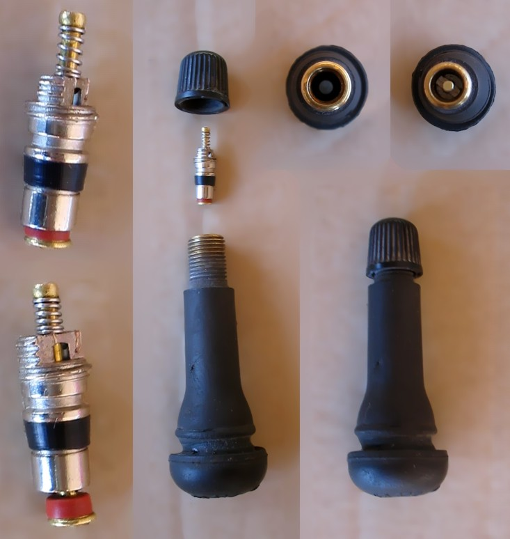 Schrader valve in view of its internal components, to the left you can see the valve closed (top) and open (bottom), in the middle you can see the order of assembly, right and below you can see the valves fitted while in the upper right is possible to see the outer tube with and without removing the valve